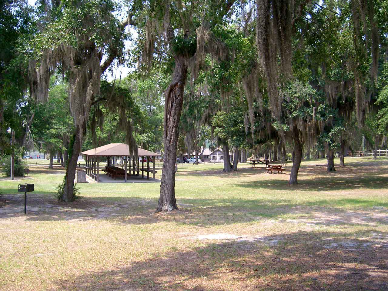 Little Ocmulgee State Park entrance and lodge complex.